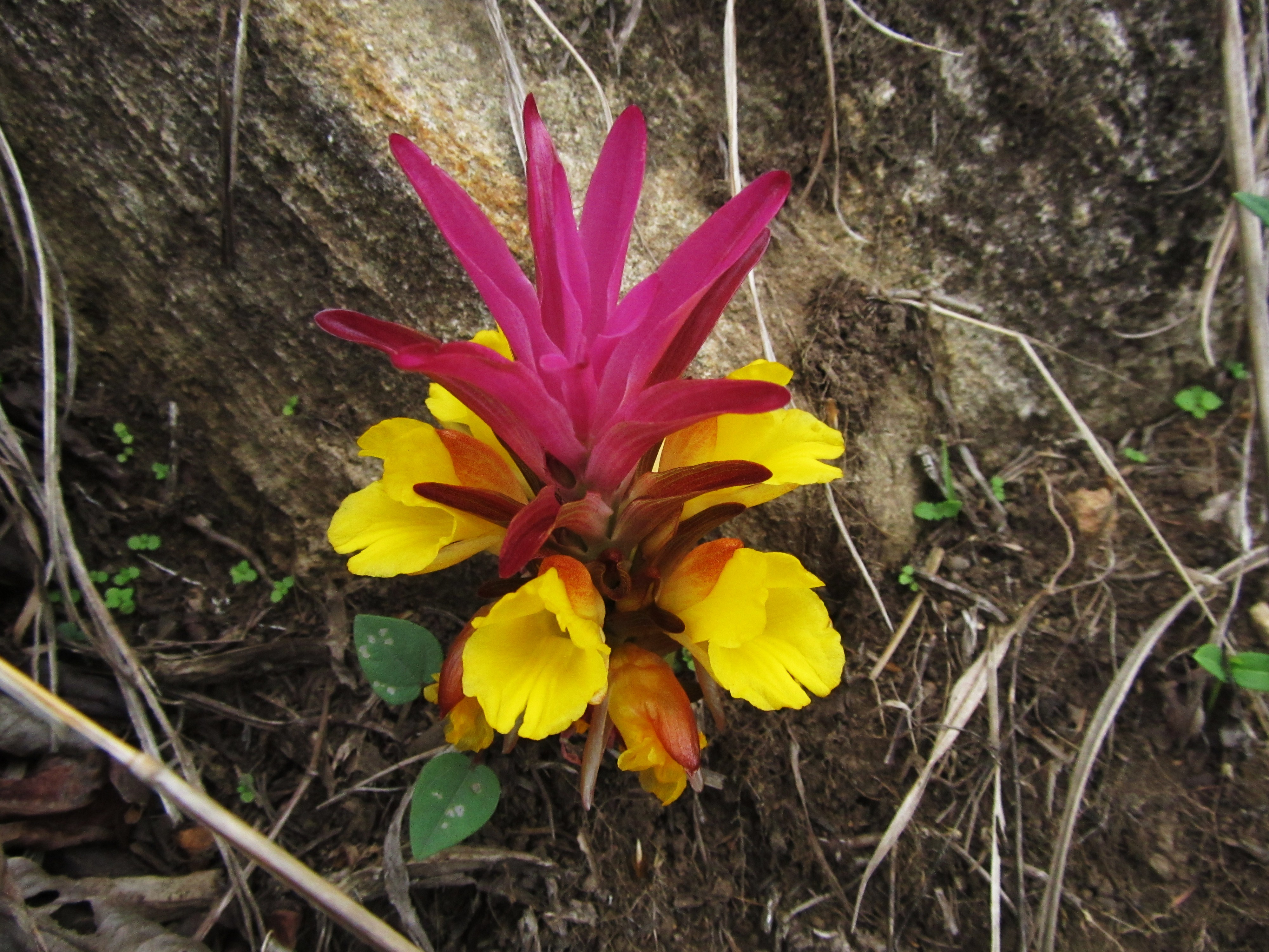 Hill Turmeric is an erect herb, growing to 75 cm tall, found on moist, shaded areas of wet forests and along sluggish grassy slopes of higher altitude. It has stout rootstock bearing small almond like sub-globose tubers at the ends of the_fibrous roots. The tubers are fleshy and white inside, aromatic. Leaves 3-5, oblong-lancelike, 20-30 x 6-9 cm, base acute, tip sharp, margin entire, hairless; shiny; leaf stalk and the leaf sheath up to 20 cm long. Flowering spikes seen in the center of the previously formed tuft of leaves, 10-25 cm long, bearing numerous compactly arranged flowers; flowering bracts conspicuous, inverted eggshaped to lancelike, 3-5 x l.5-2,cm, apex rounded to acute, hairless; gr,een with a pinktip. Non-flowering bracts (coma) oblong-lancelike, conspicuous, purple below and pinkish purple above. Flowers 2-4 in each fertile bract, bright yellow, 3 cm long and 4 cm broad. Capsules spherical, splitting by 3-valves, smooth. Seeds ovoid or oblong, usually covered with arils. Flowering: June-Septermber. Medicinal uses: Warning: Unverified information The Savara tribes in the Eastern Ghats of Andhra Pradesh use tuber extracts to cure jaundice. Jatapu and Kaya tribes apply warm tuber paste to treat body swellings. Women of Jatapu and Savara tribes eat boiled tubers to increase lactation. Khand tribes apply tuber paste on the head for cooling effect. Photo taken near Thirunelly, Kerala